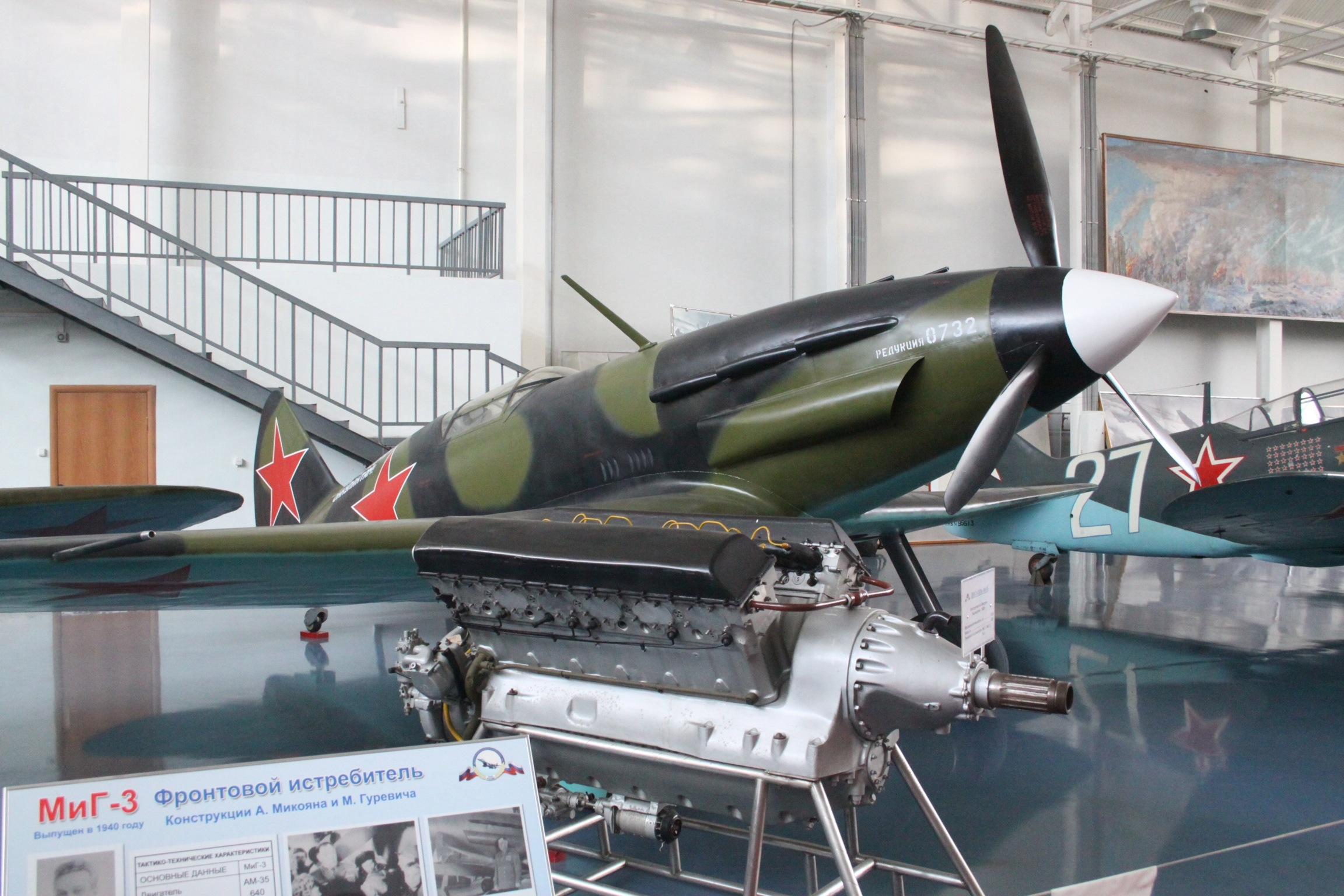 At Monino Museum